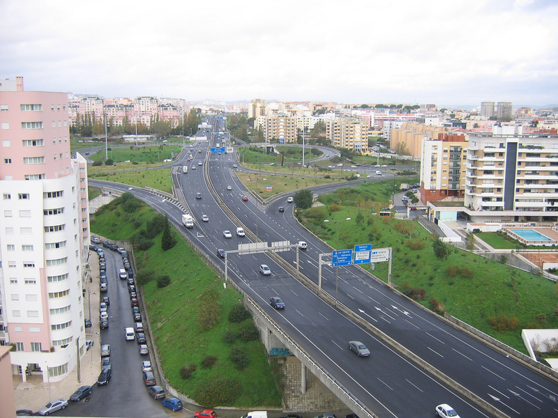 Highway Juction in Lisbon,Portugal